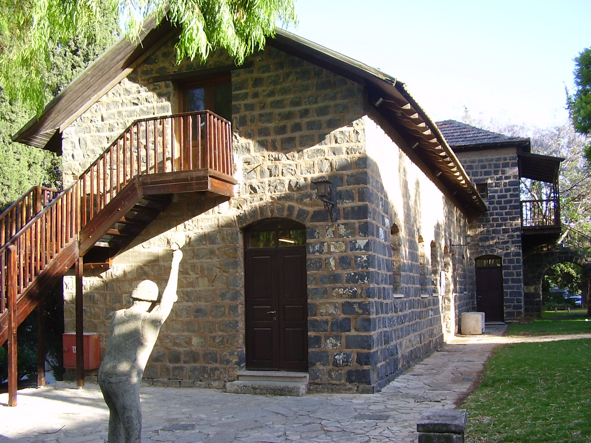 Founders house in Kibbutz Kfar Giladi